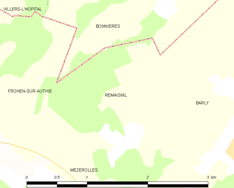 Map of French municipality Remaisnil